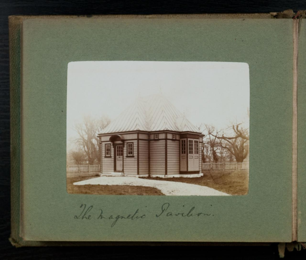 From a lovely small album containing 24 'behind-the-scenes' images of the Royal Observatory, Greenwich, ca 1900. See the full set